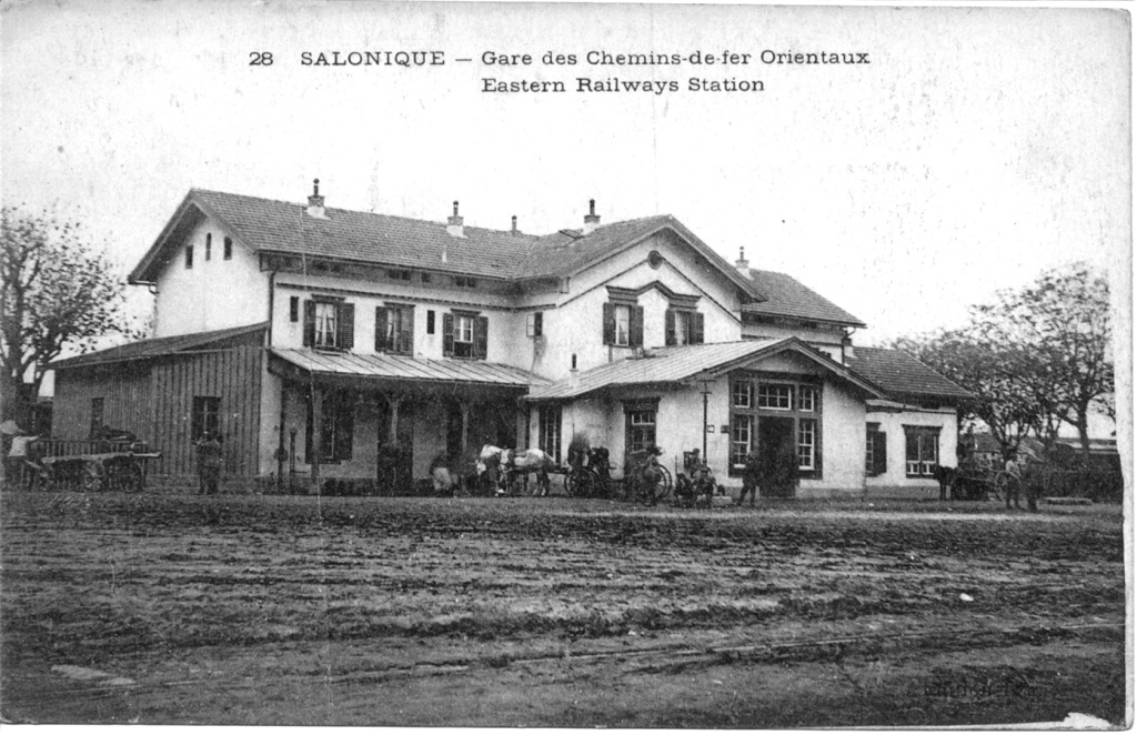 Old passenger railway station, Thessaloniki (Salonika). The station was the southern termninus of the Ottoman Eastern Railways (1873-1912).